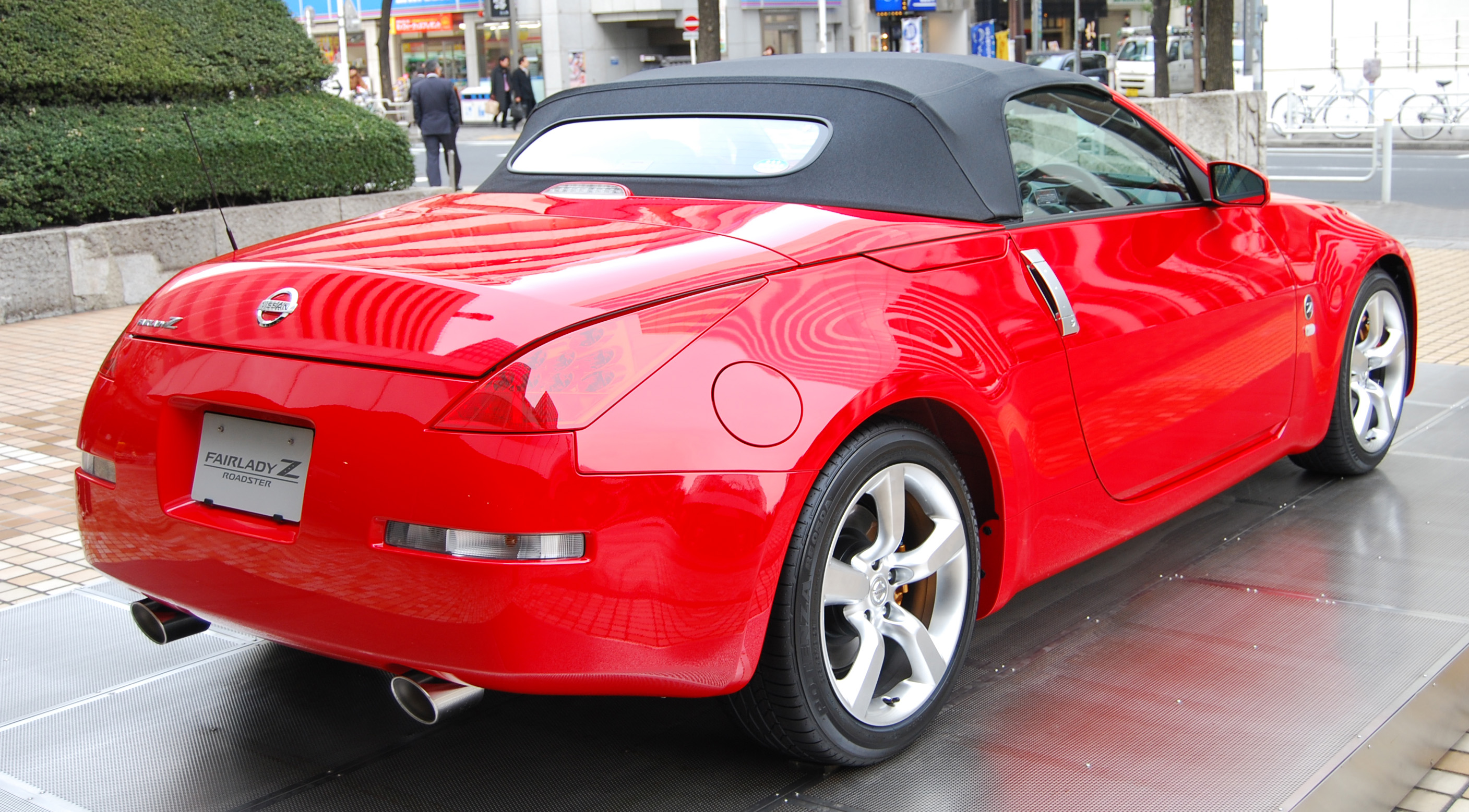 Nissan Fairlady Z Roadster photographed in Nissan Gallery (Ginza, Tokyo)